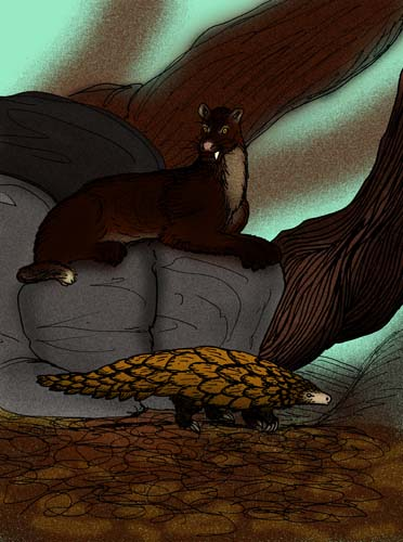 Comparison of the barbourofelid Sansanosmilus palmidens, and the pholidotid, Necromanis franconica, of Miocene France